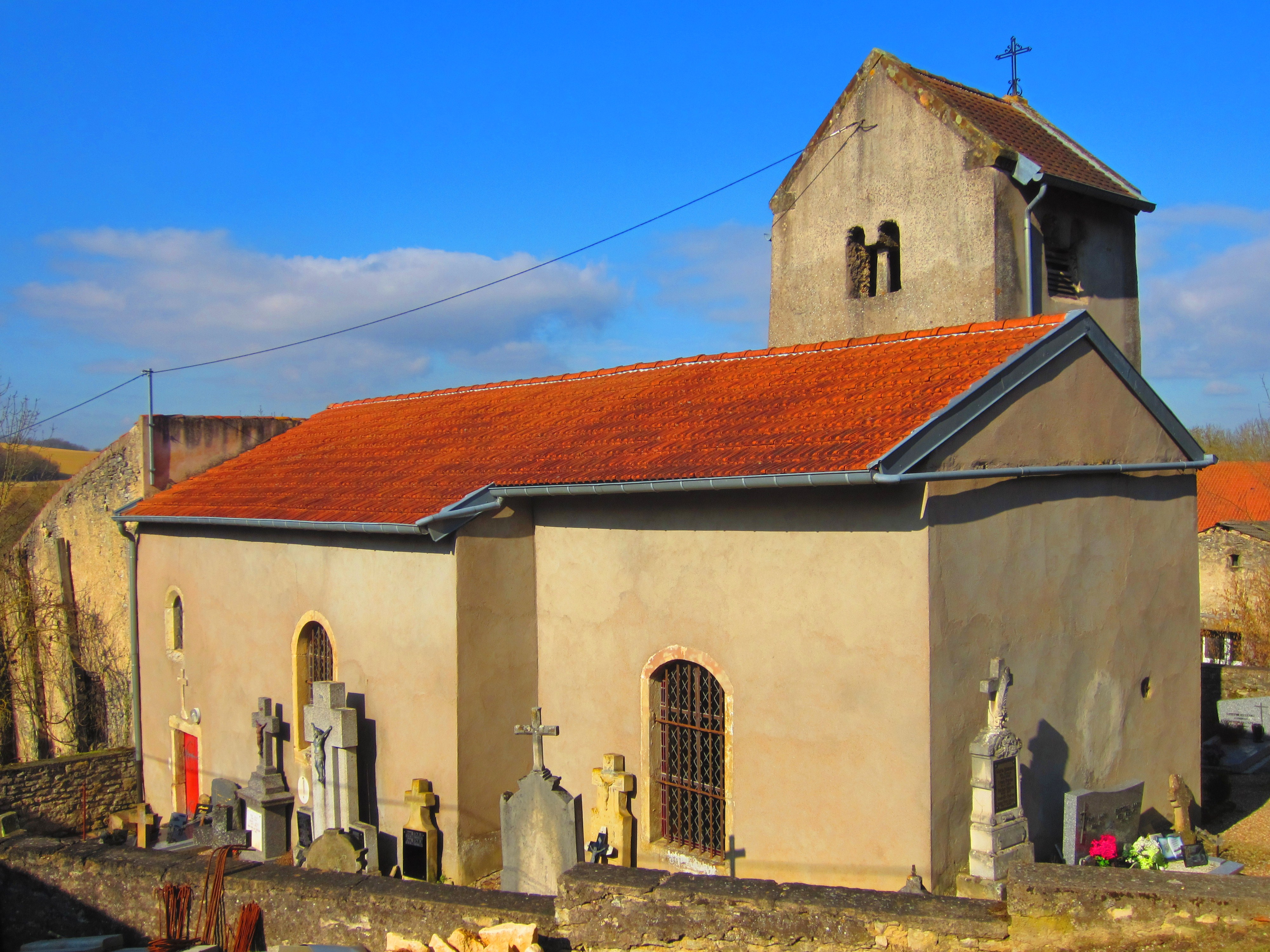 Morlange chapel